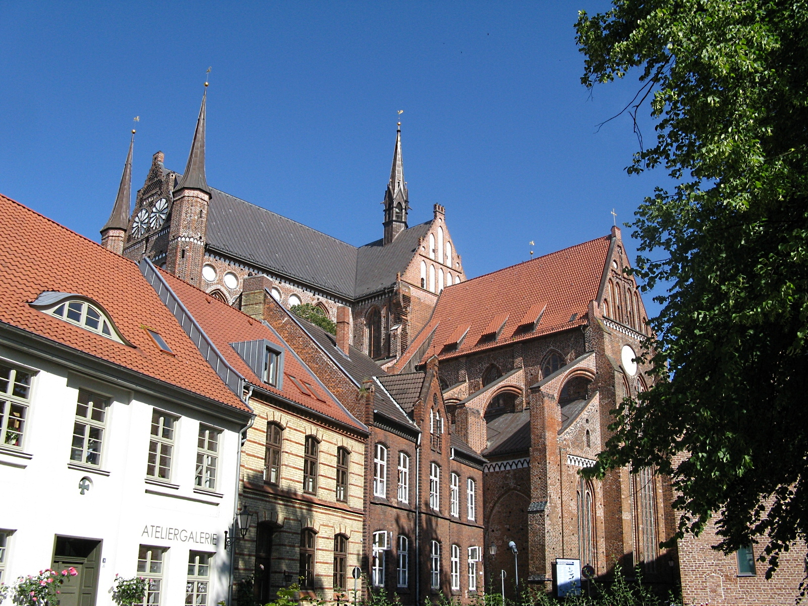 Church St. Georgen in Wismar, Mecklenburg-Vorpommern, Germany